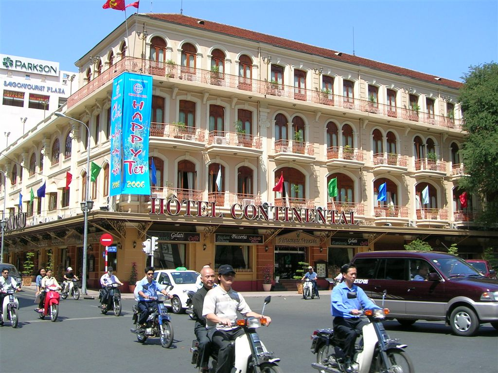 Hotel Continental, first hotel built in Saigon.